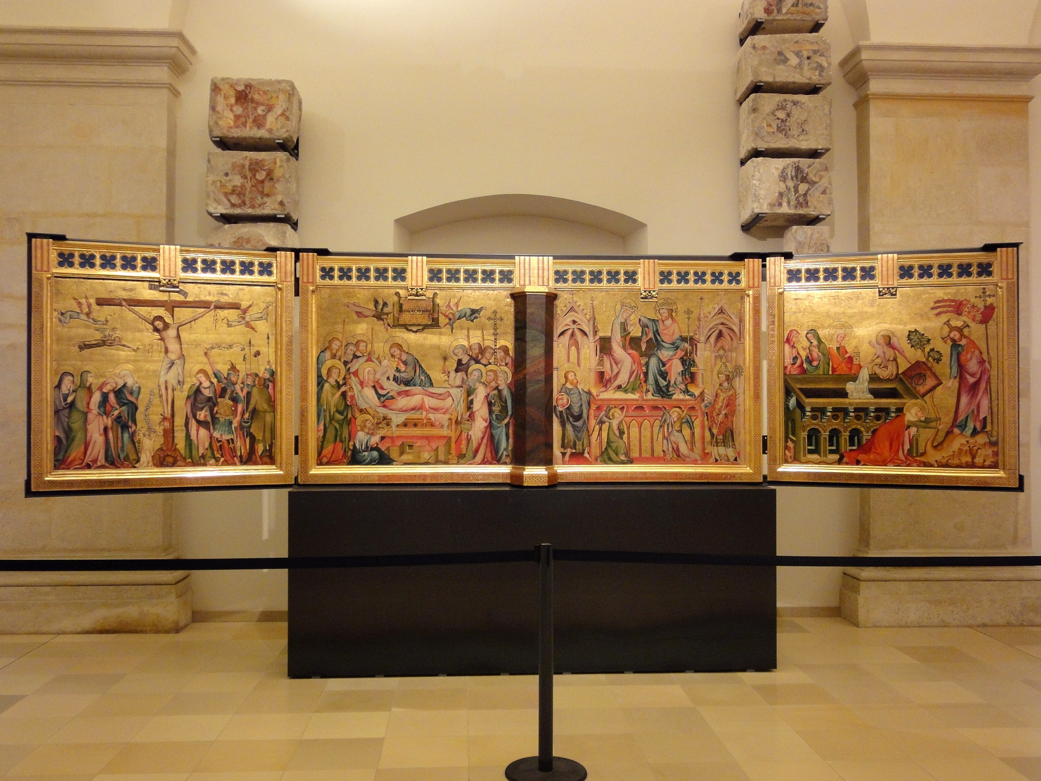 Altar at Klosterneuburg, Back, ca. 1331, Monastery of Klosterneuburg, Lower Austria